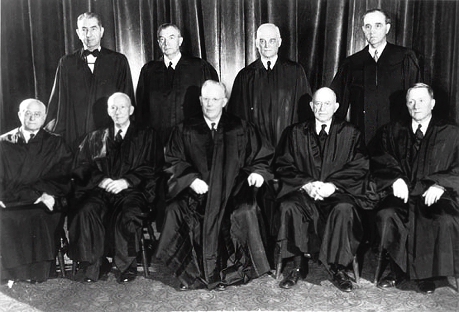 The United States Supreme Court in 1953. Bottom from left: Felix Frankfurter; Hugo Black; Earl Warren (Chief Justice); Stanley Reed; WIlliam O. Douglas. Back from left: Tom Clark; Robert H. Jackson; Harold Burton; Sherman Minton